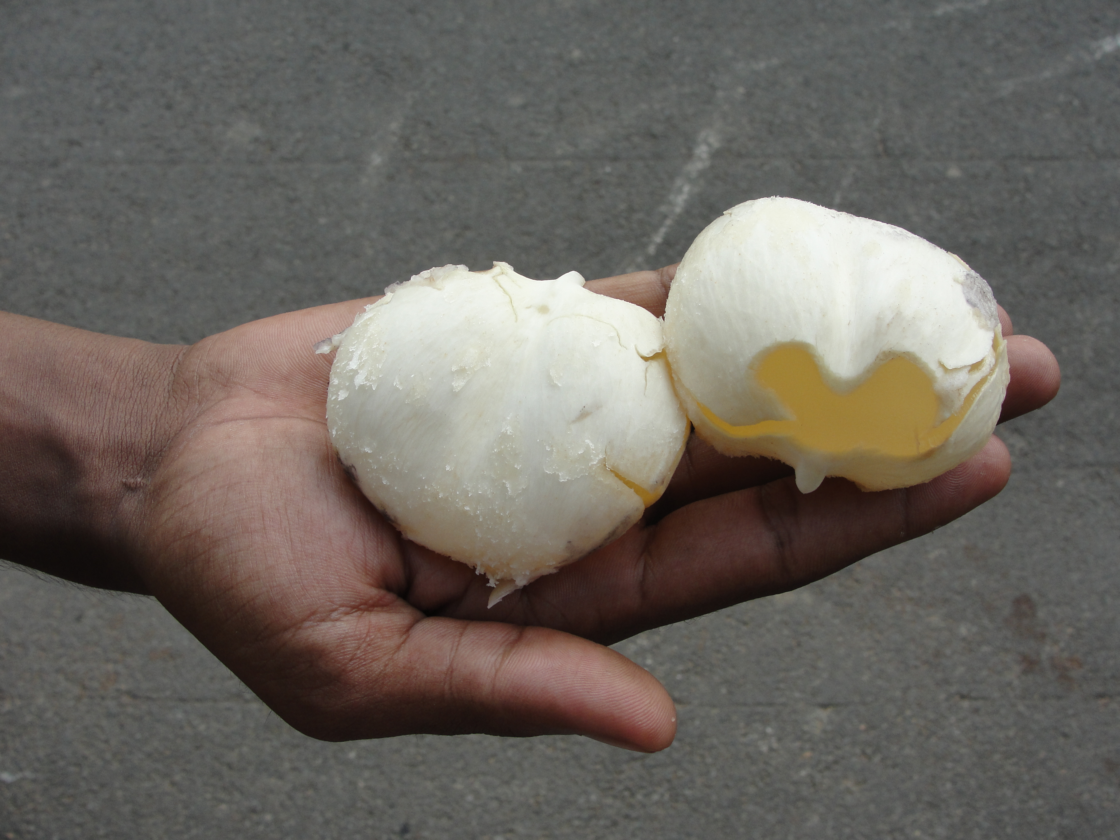 This photo depicting young fruits of the Palmyra. Palmyra is one the traditional tree of Tamils. This tree is cultural icon of Tamils.